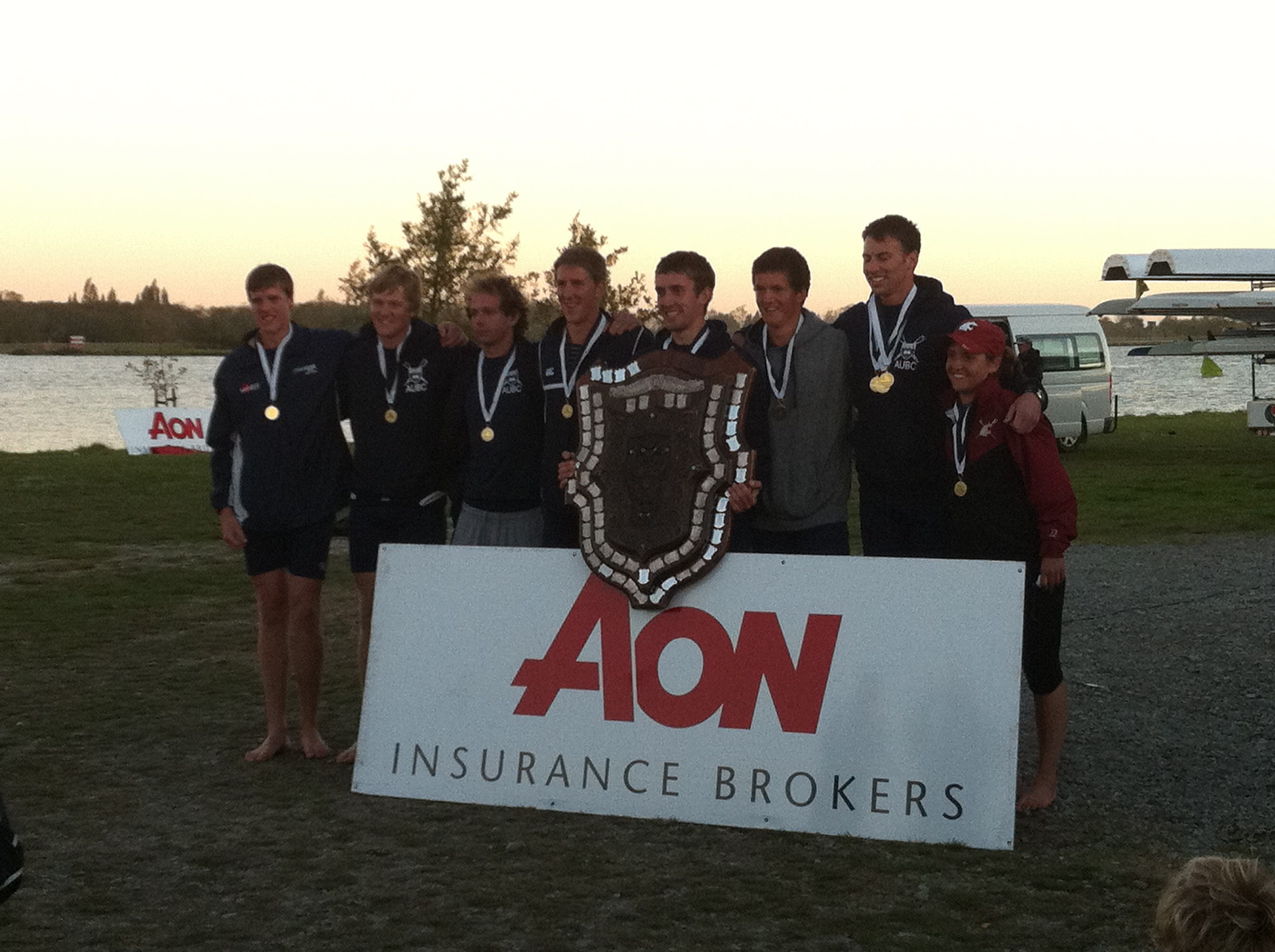 Winners of the Hebberly Shield for 2012, The Auckland University Boat Club.